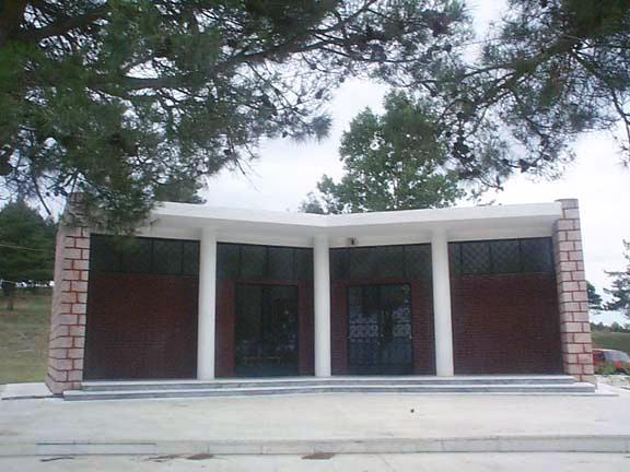 Outside View, image from the Museum of the Battle of Lahanas, Lahanas, Central Macedonia, Greece